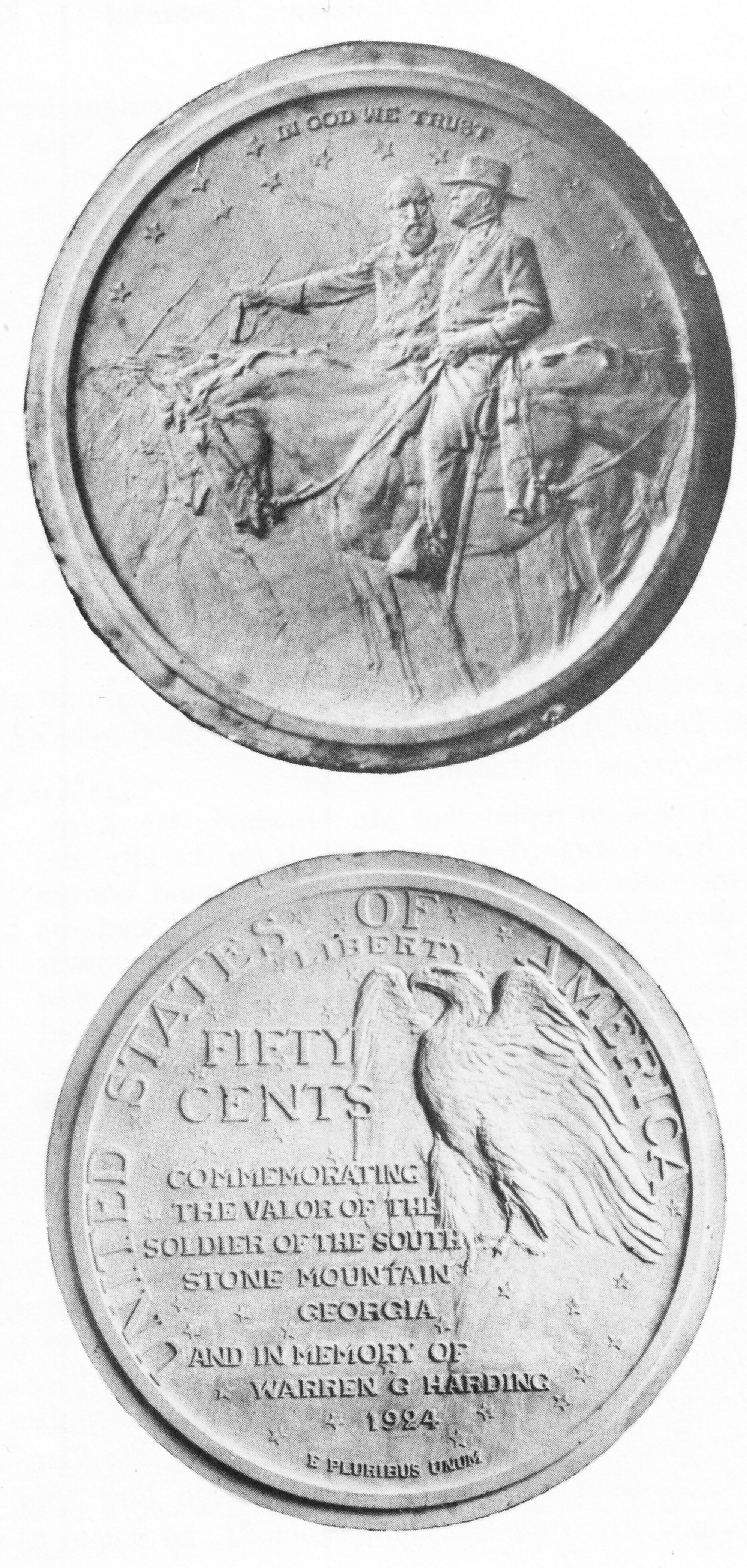 Message side of printed postal card acknowledging order for a 1939 Oregon Trail Memorial half dollar set. Neither side bears a copyright, and this would have been sent to anyone who successfully reserved a set.